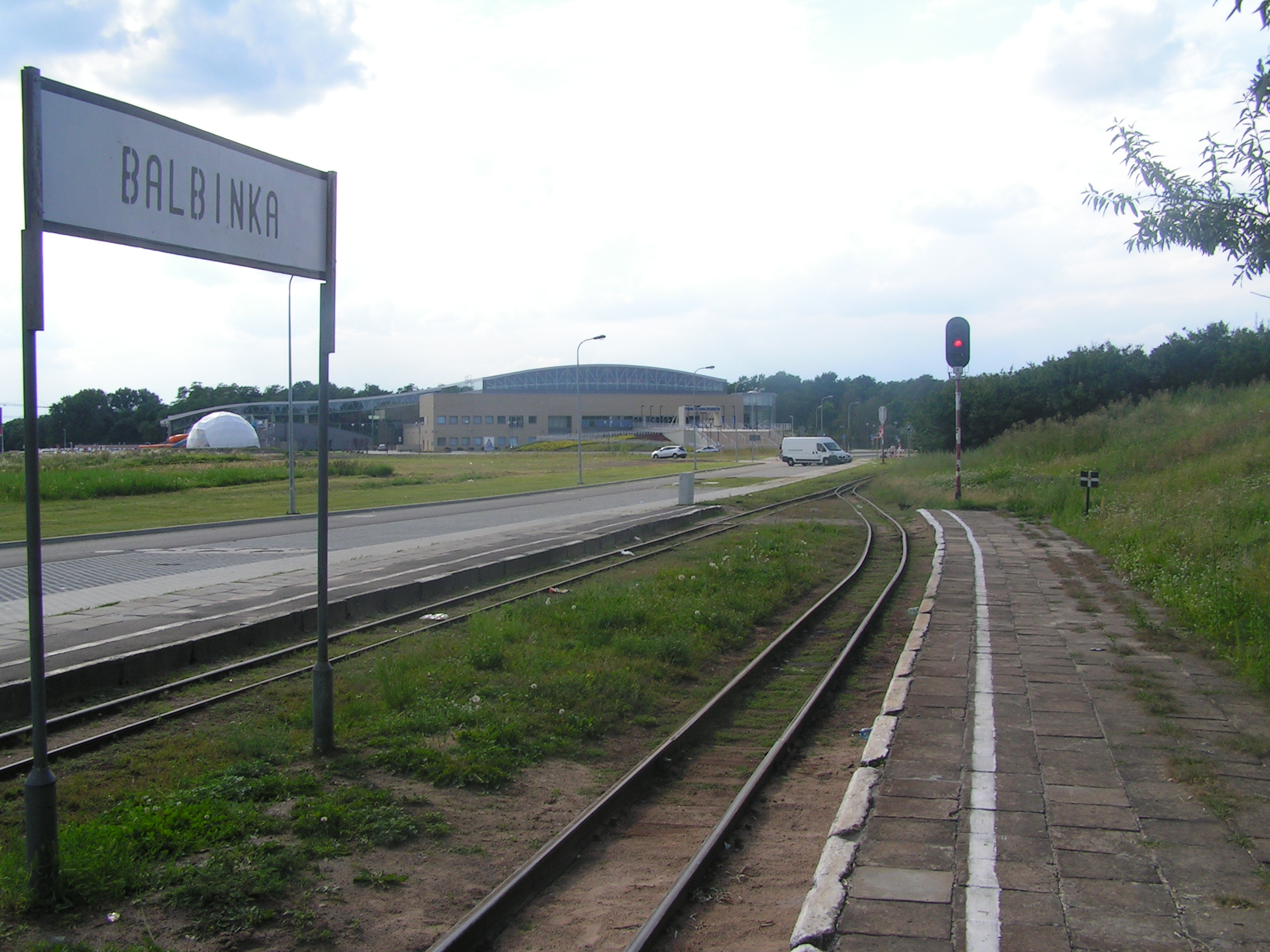 Balbinka Station in Poznań